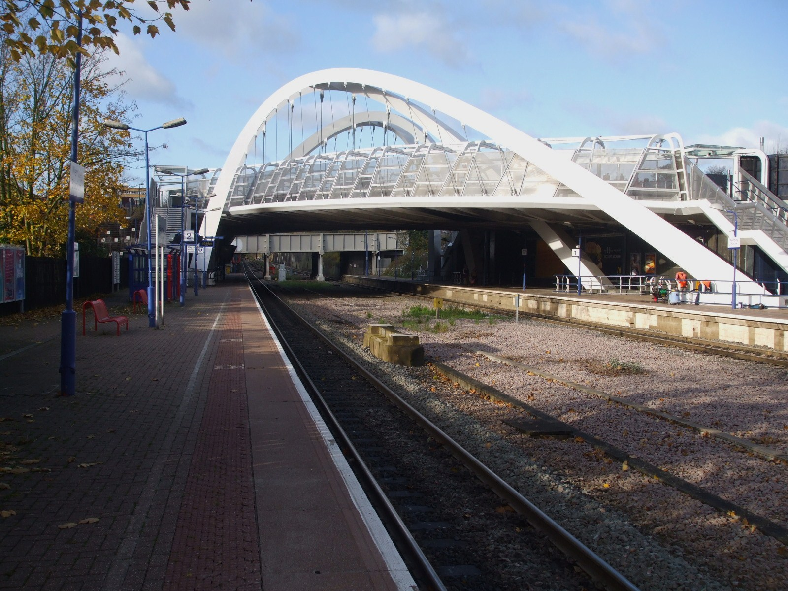 Wembley Stadium station looking west